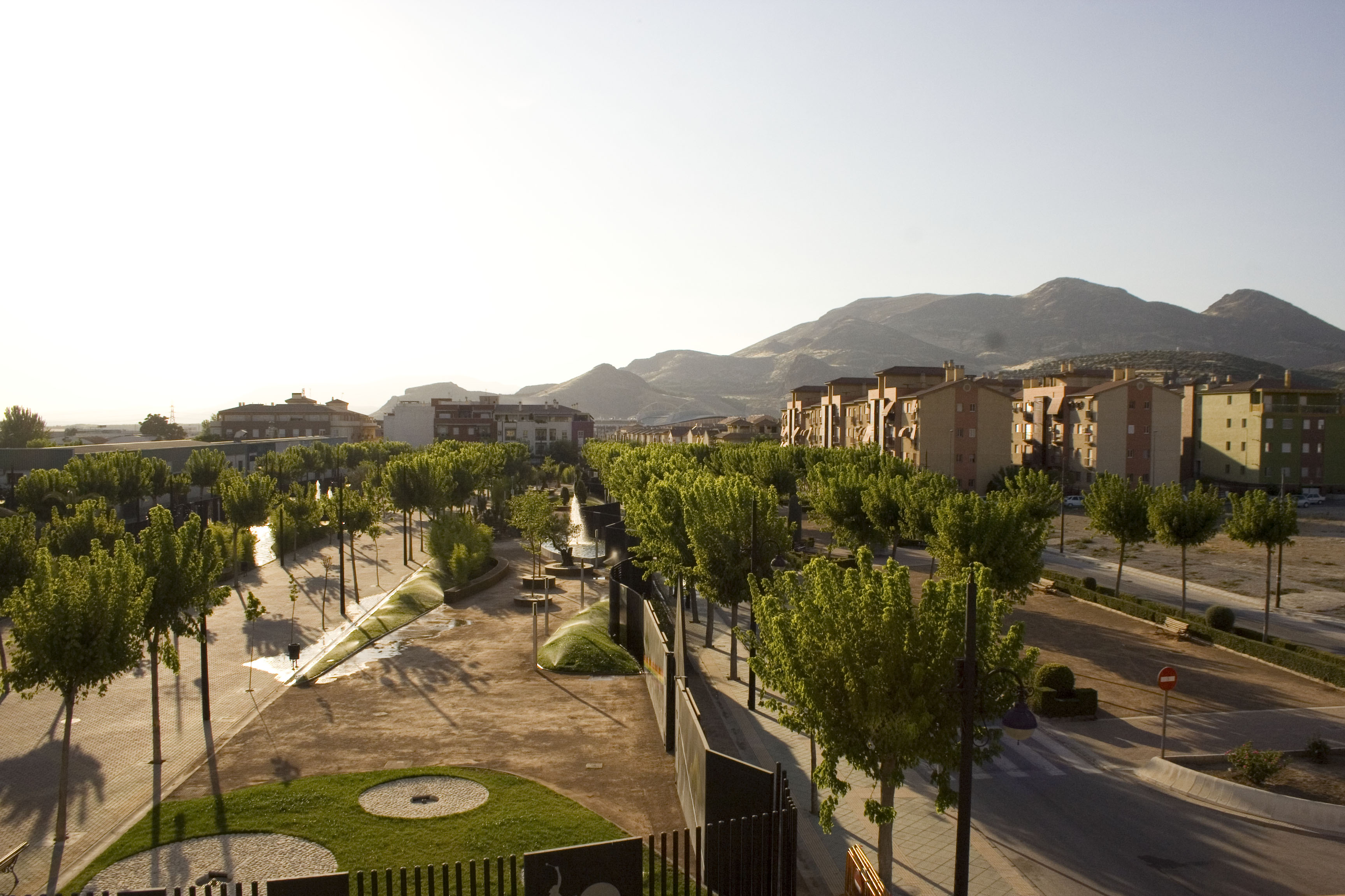 The view of Atarfe town showing the park dedicated to Pink Floyd and the mountains.